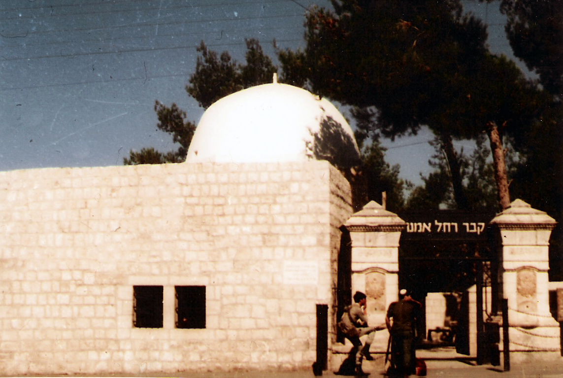 Tomb of Raakel near Betlehem